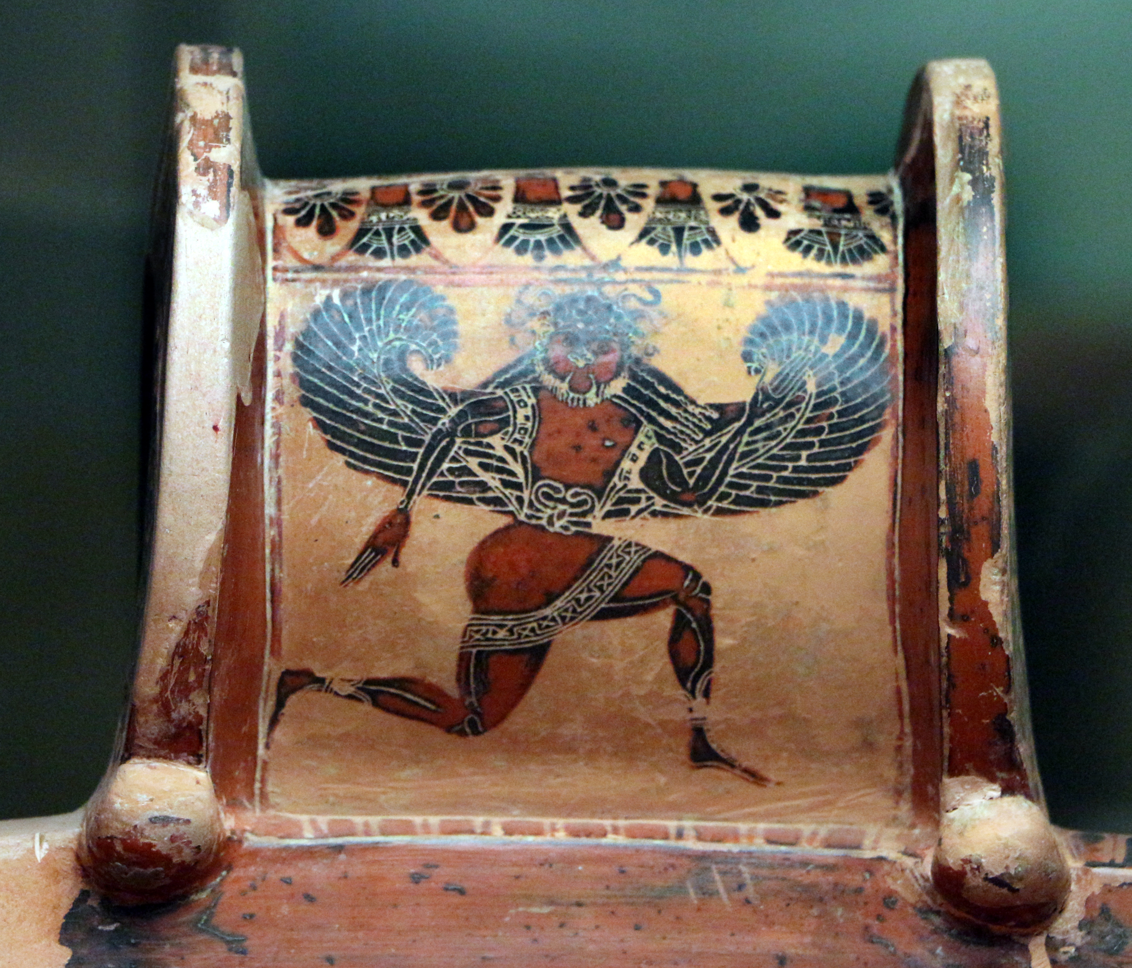 François vase